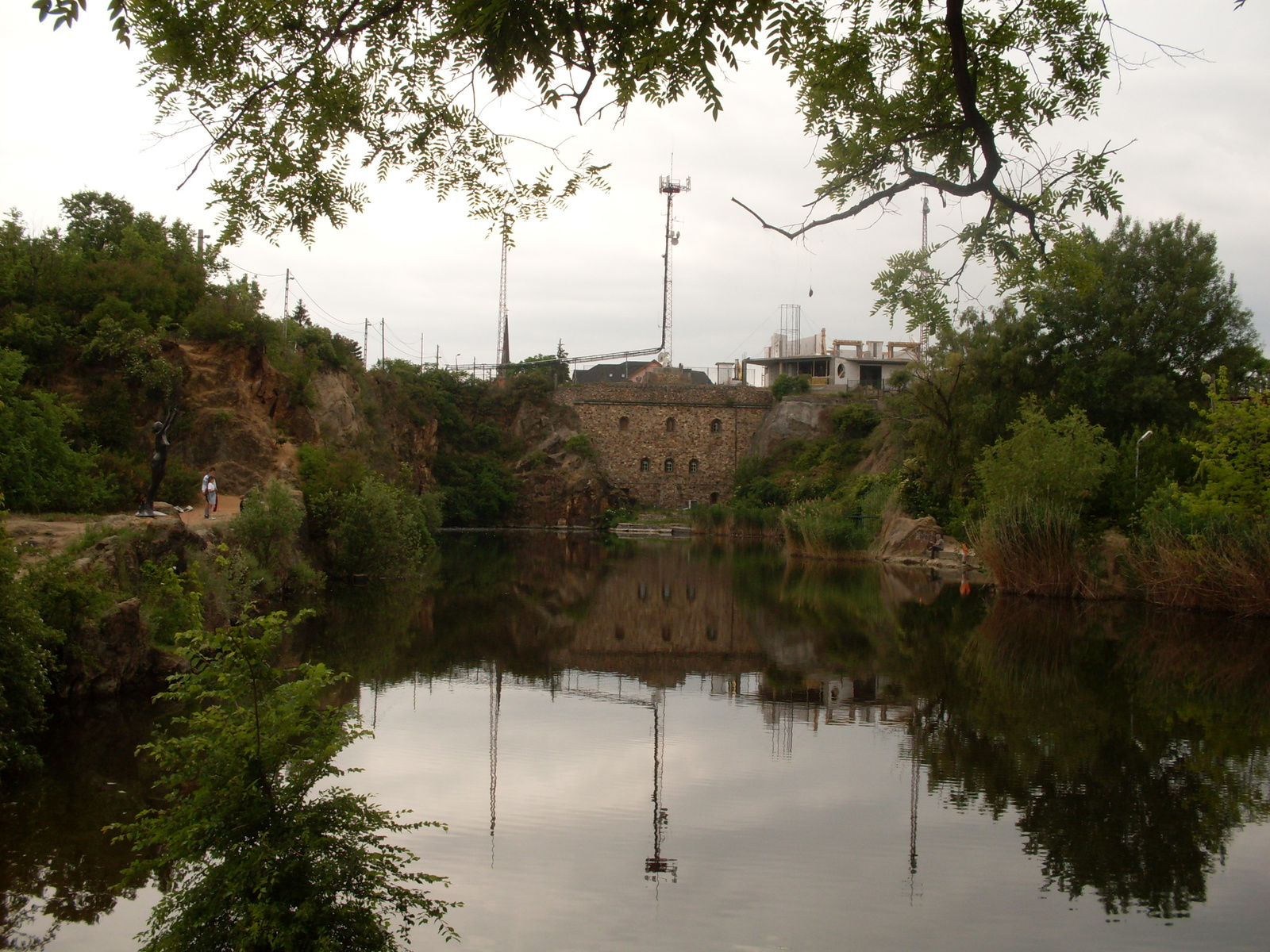 The mine lake of Székesfehérvár, Hungary